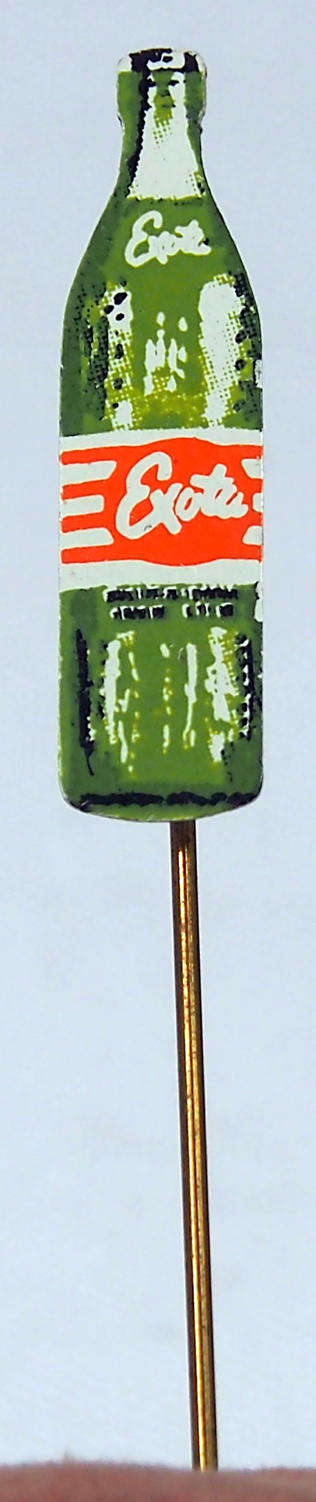 Very old packaging of a Dutch product that is not produced and not sold any more. Photographed at a collector of Droste. For info see tincollectors.nl or